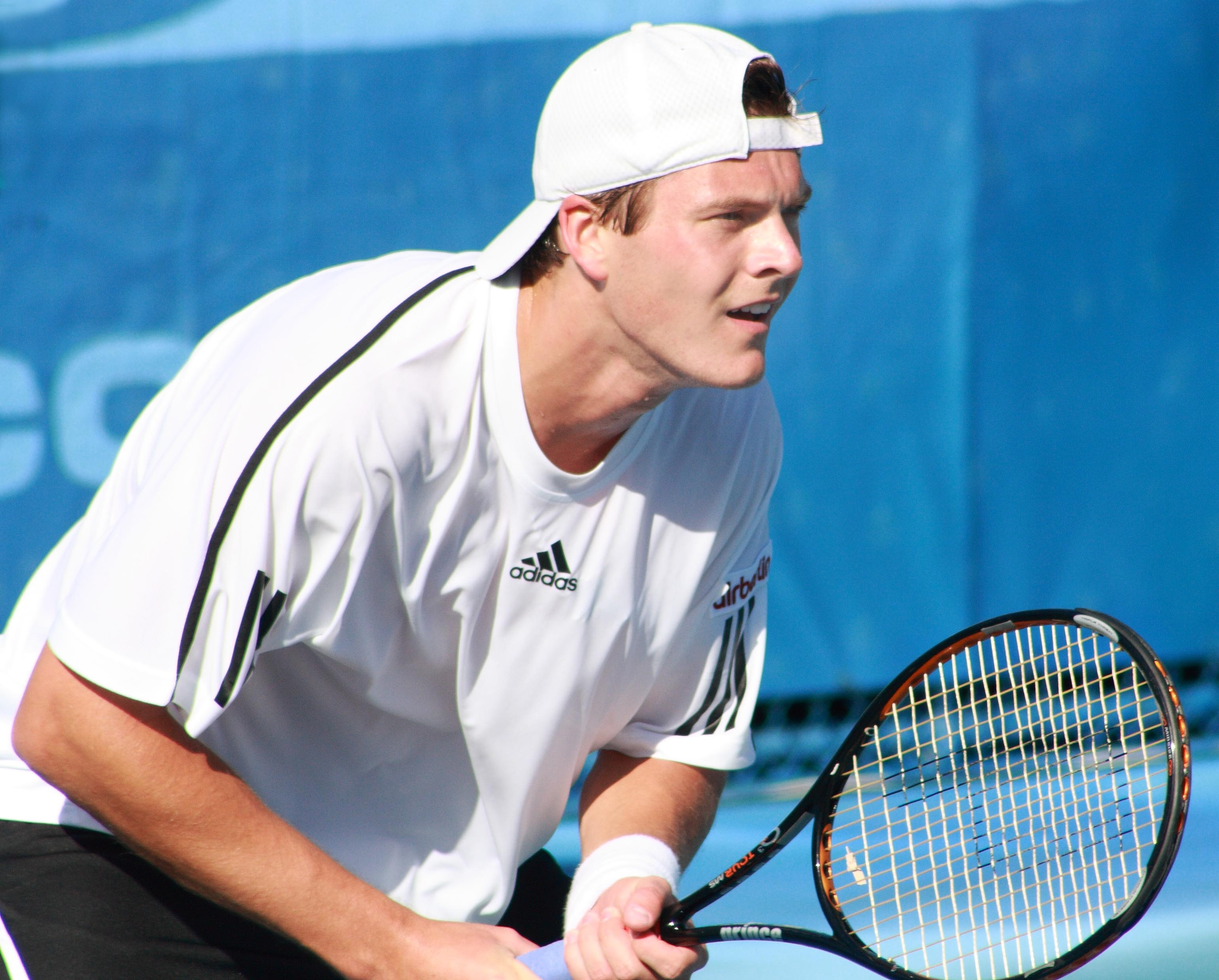 Evgeny Korolev at 2009 Delray Beach International Tennis Championships, Delray Beach, Florida, United States